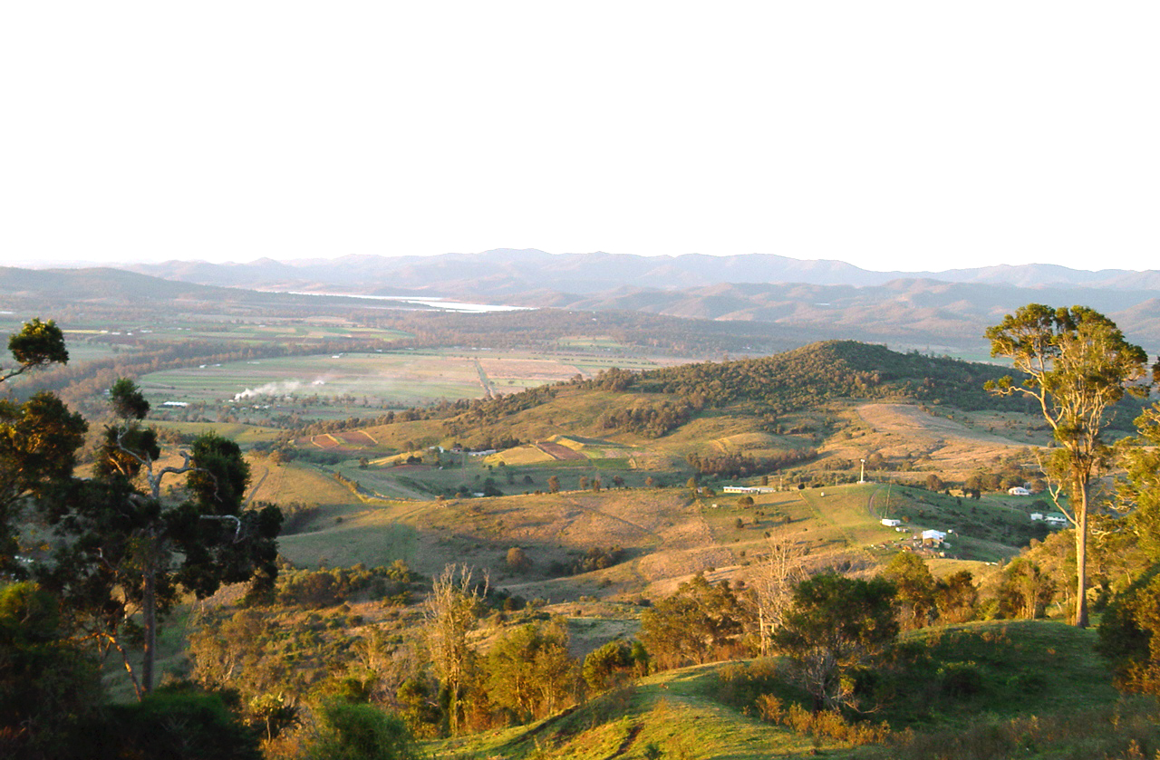 View towards Wivenhoe Dam across Wivenhoe Pocket from Mt Stradbroke in Somerset region